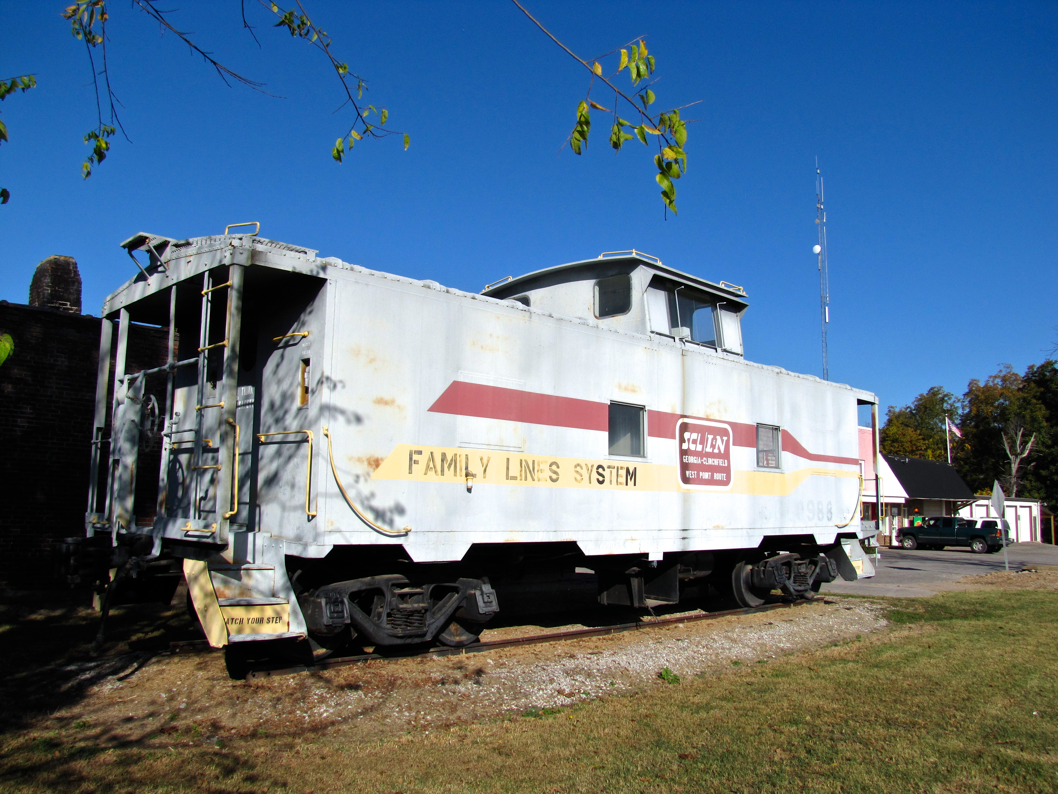 Family Lines System caboose in Ethridge, Tennessee, United States.